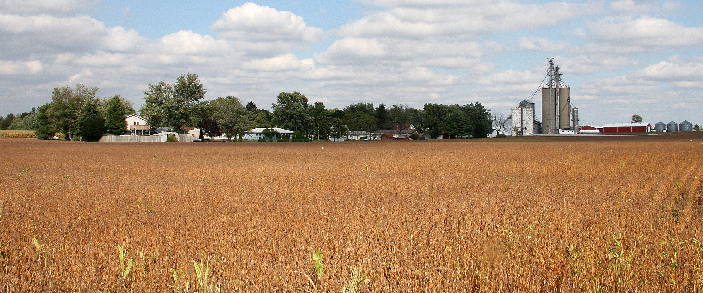 The town of Cambria, Indiana. Photo looks northeast from Clinton County Road 300 West across fields of soybeans.